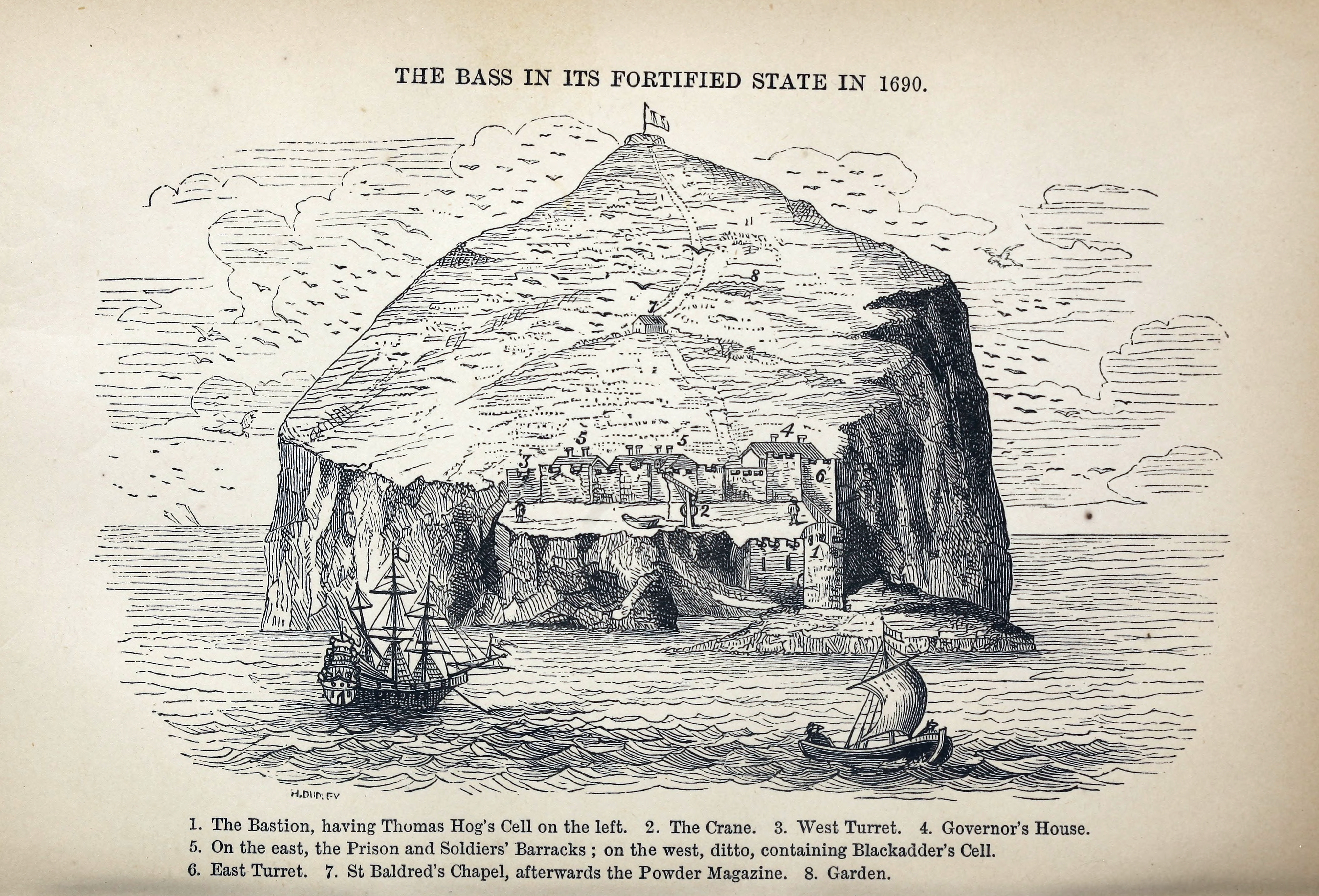 Image from "The Bass Rock - Its Civil and Ecclesiastical History, Geology, Martyrology, Zoology and Botany" (but commonly referred to as "The Bass Rock"), published at Edinburgh in 1847. Out of copyright. 1. The Bastion, with the Cell of Thomas Hog on the left. 2. The Crane. 3. West Turret. 4. Governor's House. 5. Prison and Soldiers' Barracks one the east. On the west the same, containing Blackadder's Cell. 6. East Turret. 7. St. Baldred's Chapel, and then the Powder Magazine. 8. Garden.